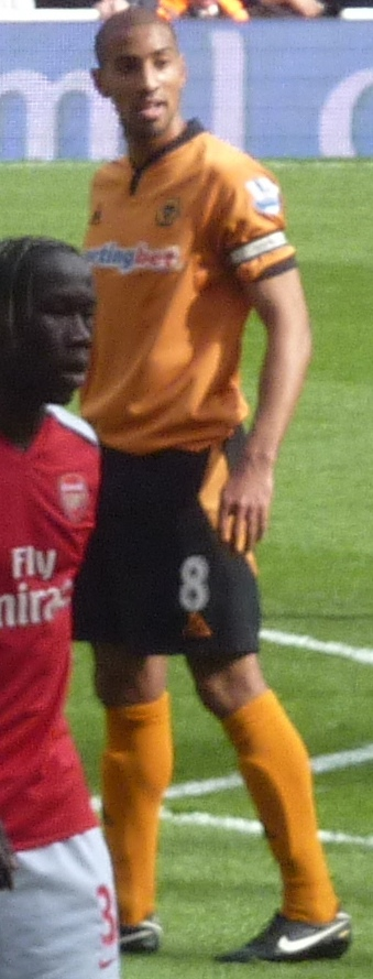 Karl Henry, cropped from Arsenal vs Wolves